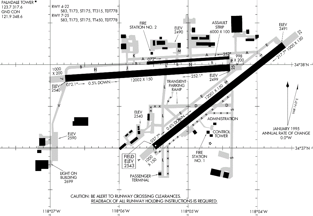 Transwiki approved by: User:Dmcdevit This image was copied from en. The original description was: FAA diagram of Palmdale Regional Airport (PMD) in Palmdale, California. Produced by the National Aeronautical Charting Office (NACO), a department of the Federal Aviation Administration (FAA). Note: this URL changes monthly, for current diagram see